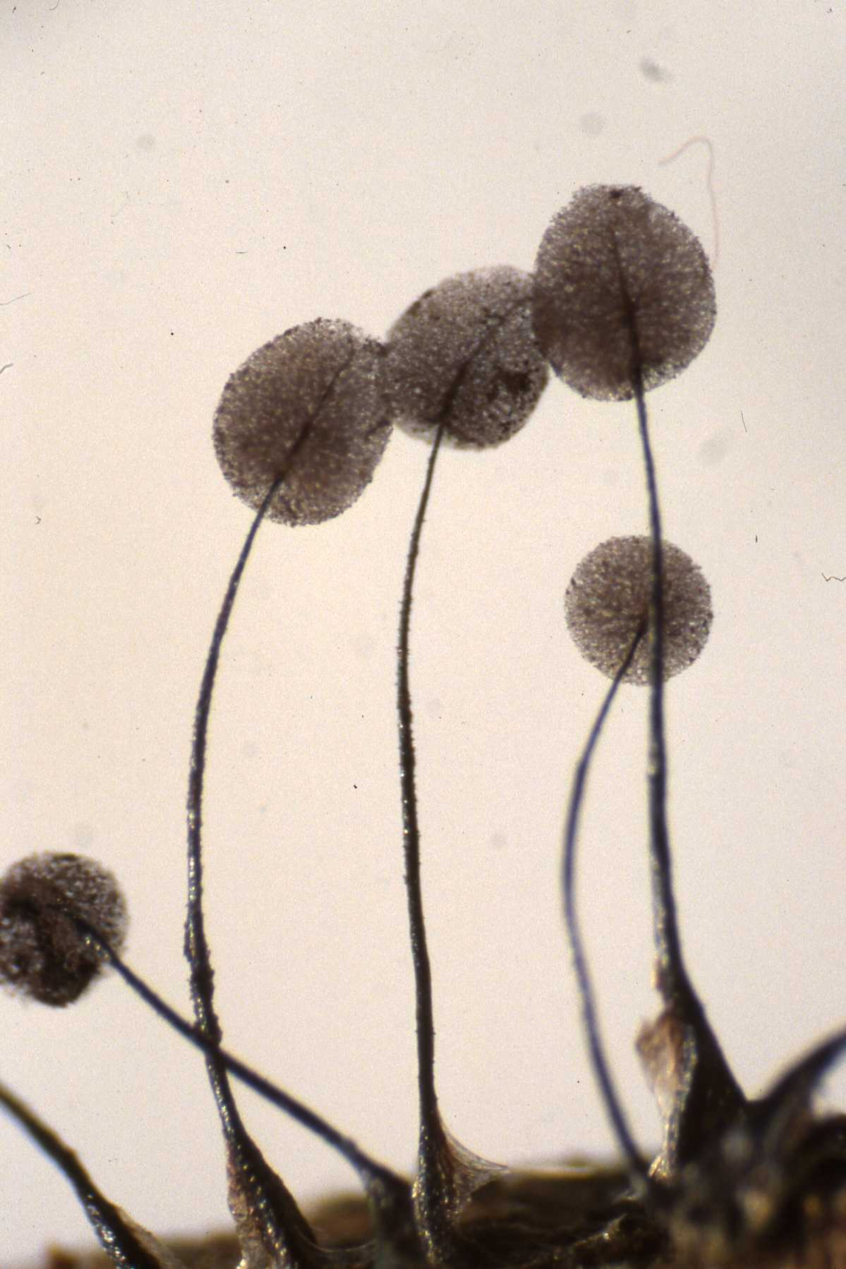 Comatricha nigra